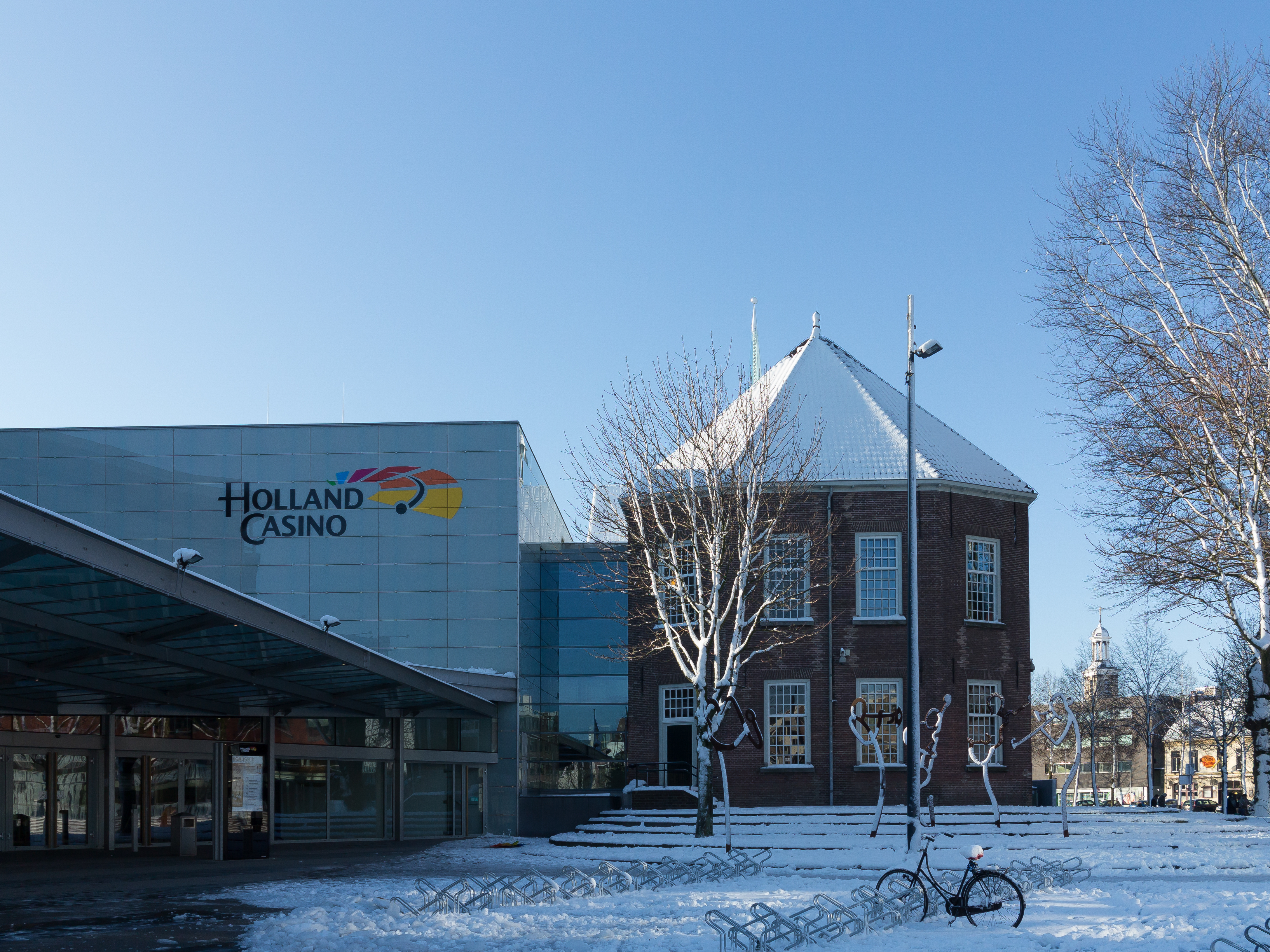 Breda, casino Holland Casino